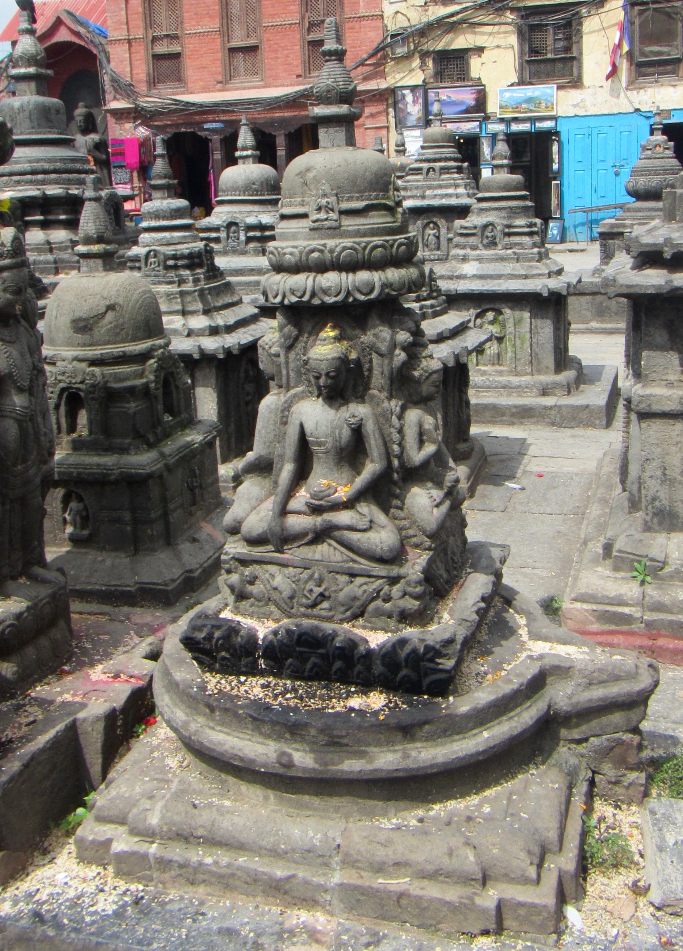 Vajrayana tradition Swambhunath temple in Nepal, one of the most sacred sites for Buddhist Newar people features numerous Shiva linga-yoni within its premises where four Buddhas in different meditative poses are carved on the Siva linga along with many additional Buddhist deities.